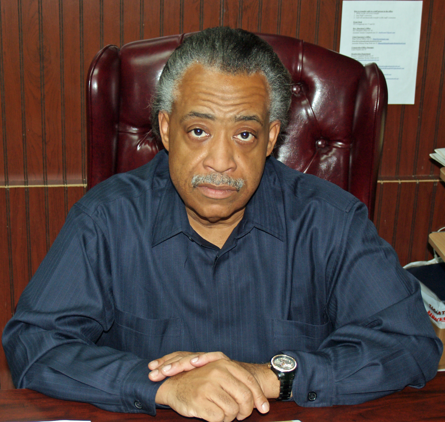 Al Sharpton